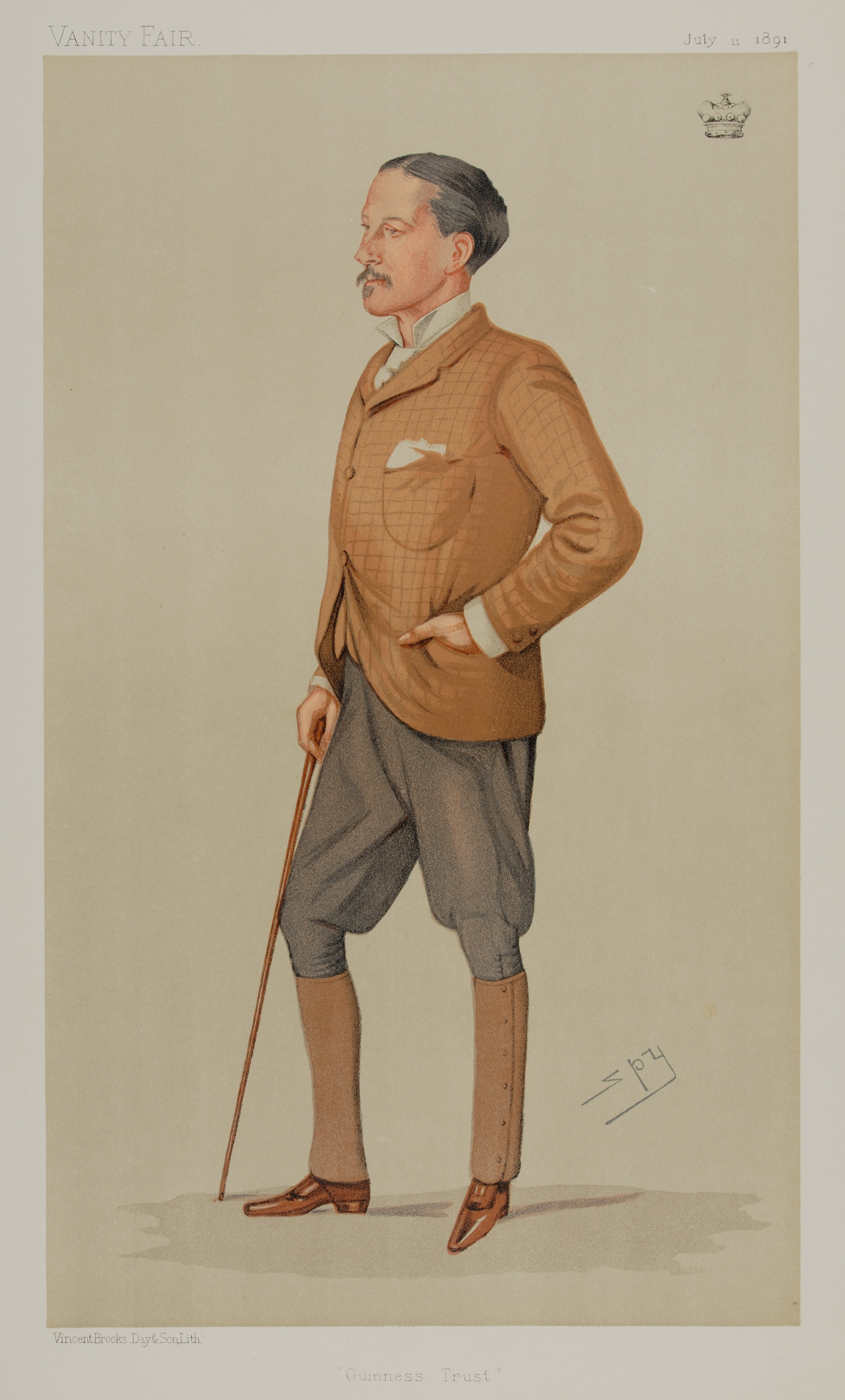 Men of the Day No. 511: Caricature of Lord Iveagh. Caption read "Guinness Trust".